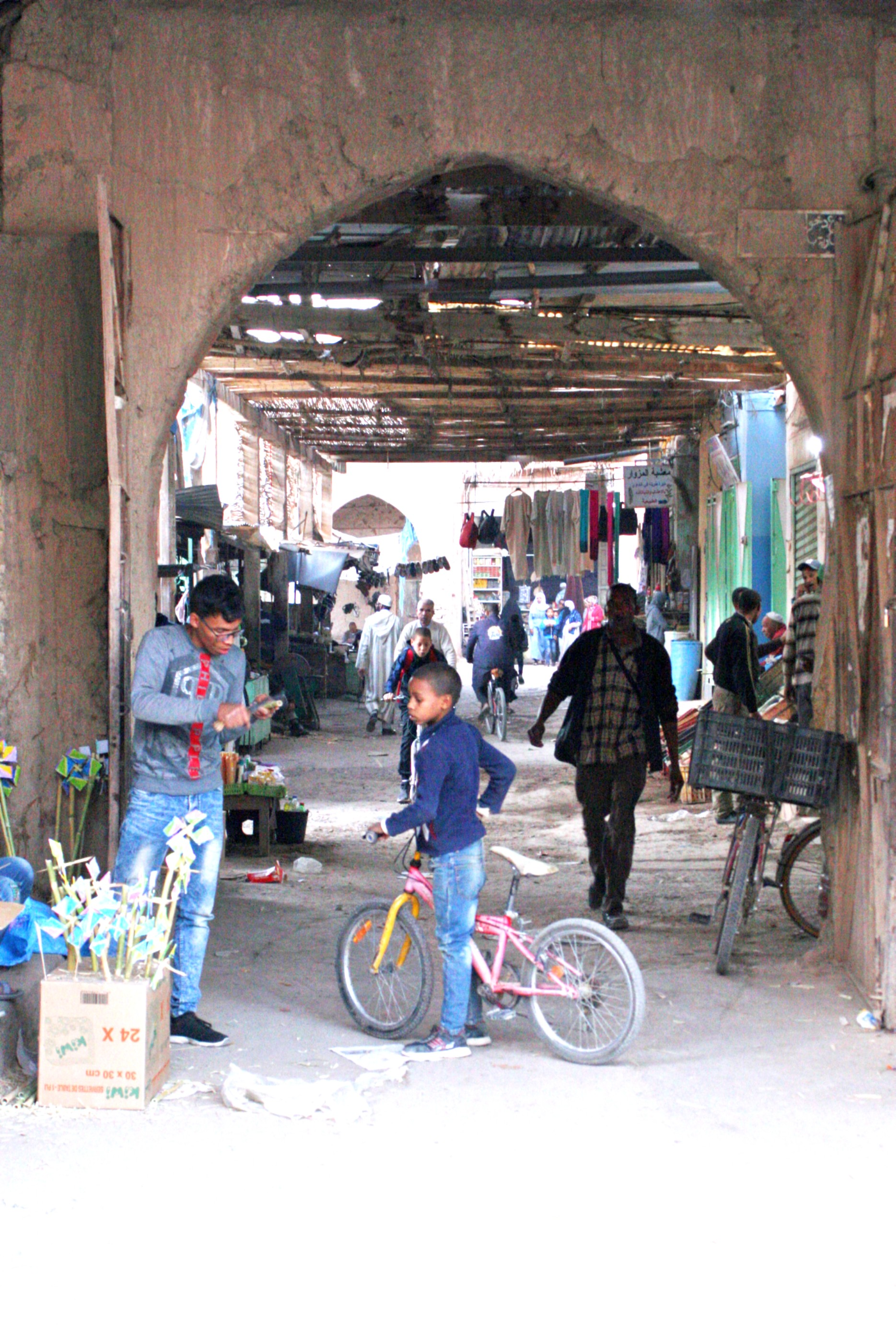 MARKETRISSANI CELEBRATION ACHOURA This is an image with the theme "Africa on the Move or Transport" from: Morocco